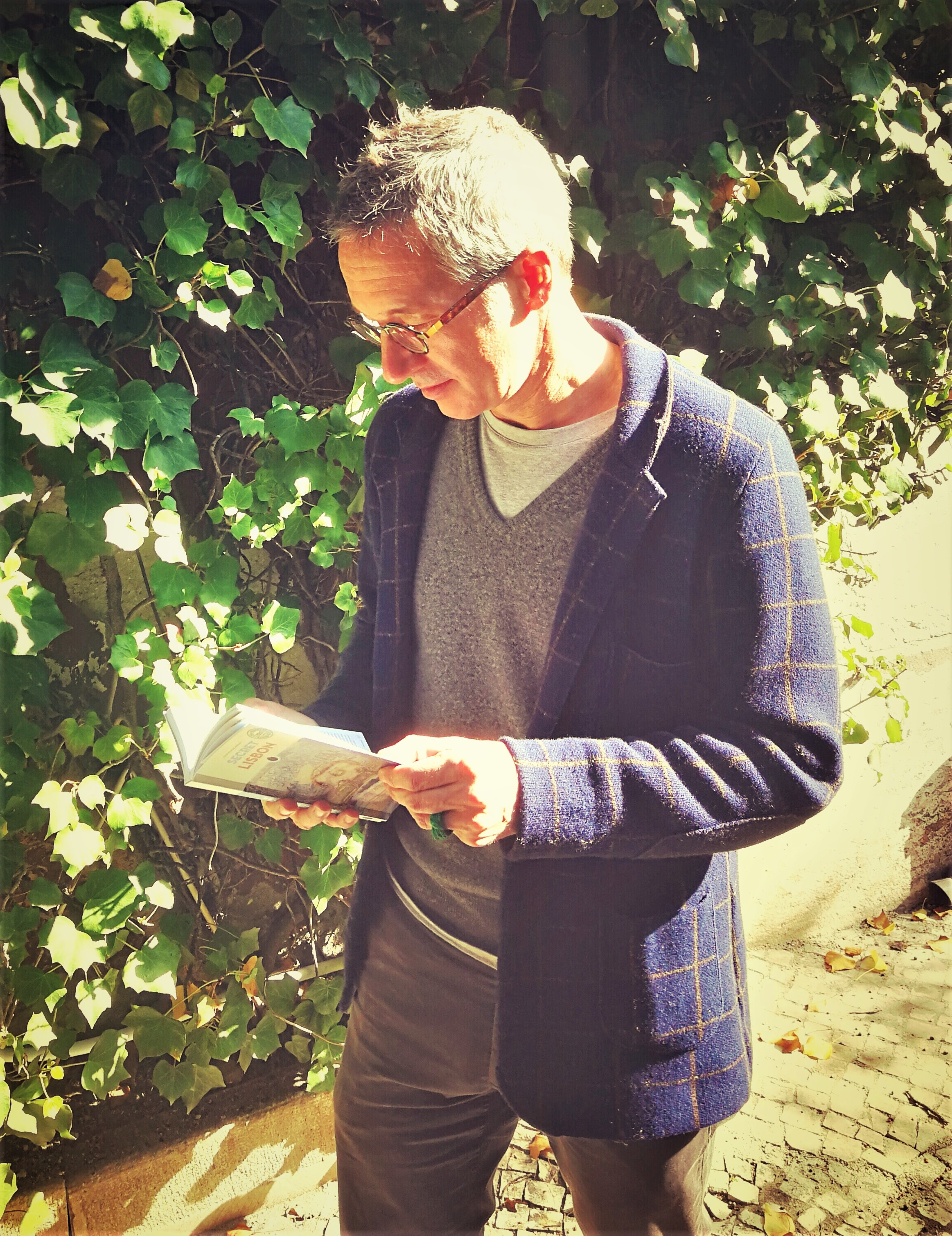 José María Lassalle in Lisbon